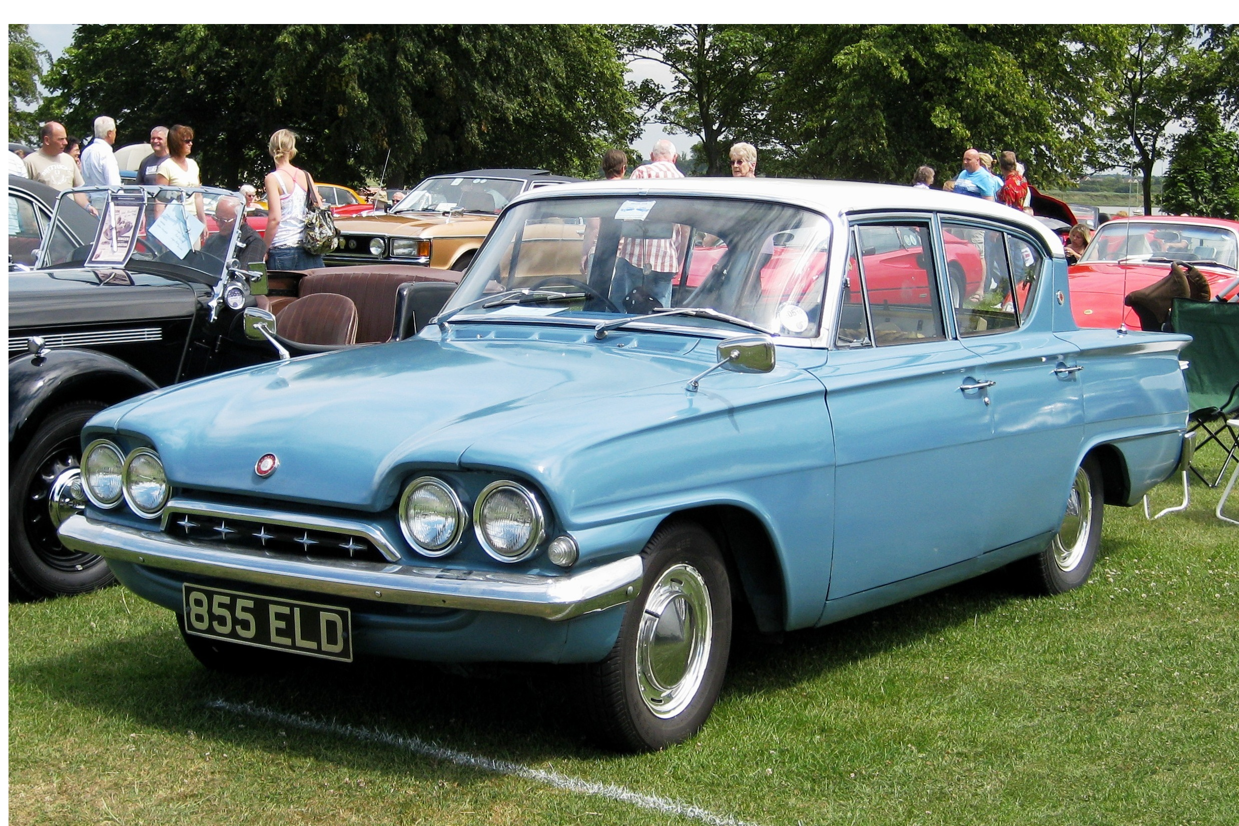 Ford Consul Classic with four doors at Maldon in Essex